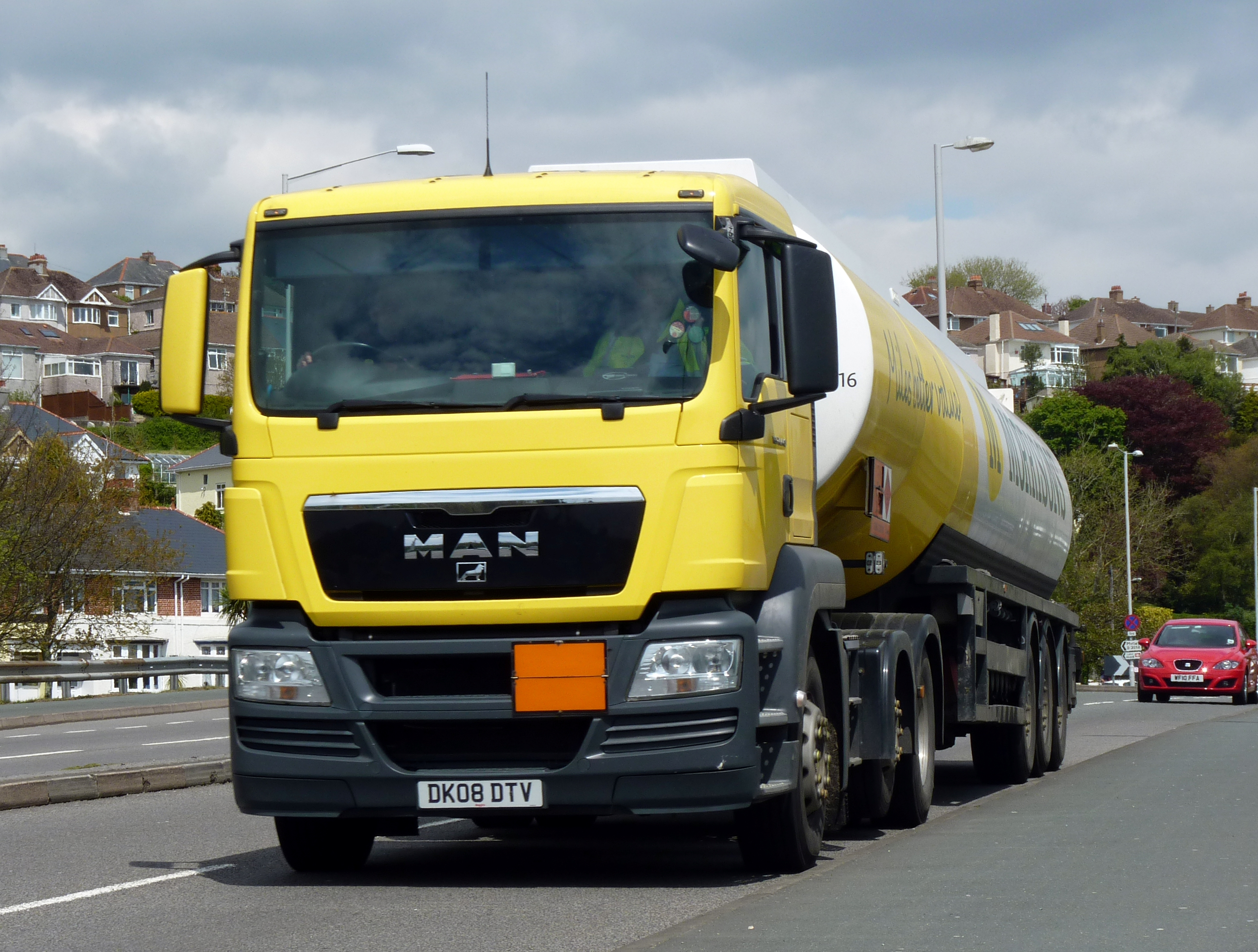 Embankment Plymouth 7 May 2010